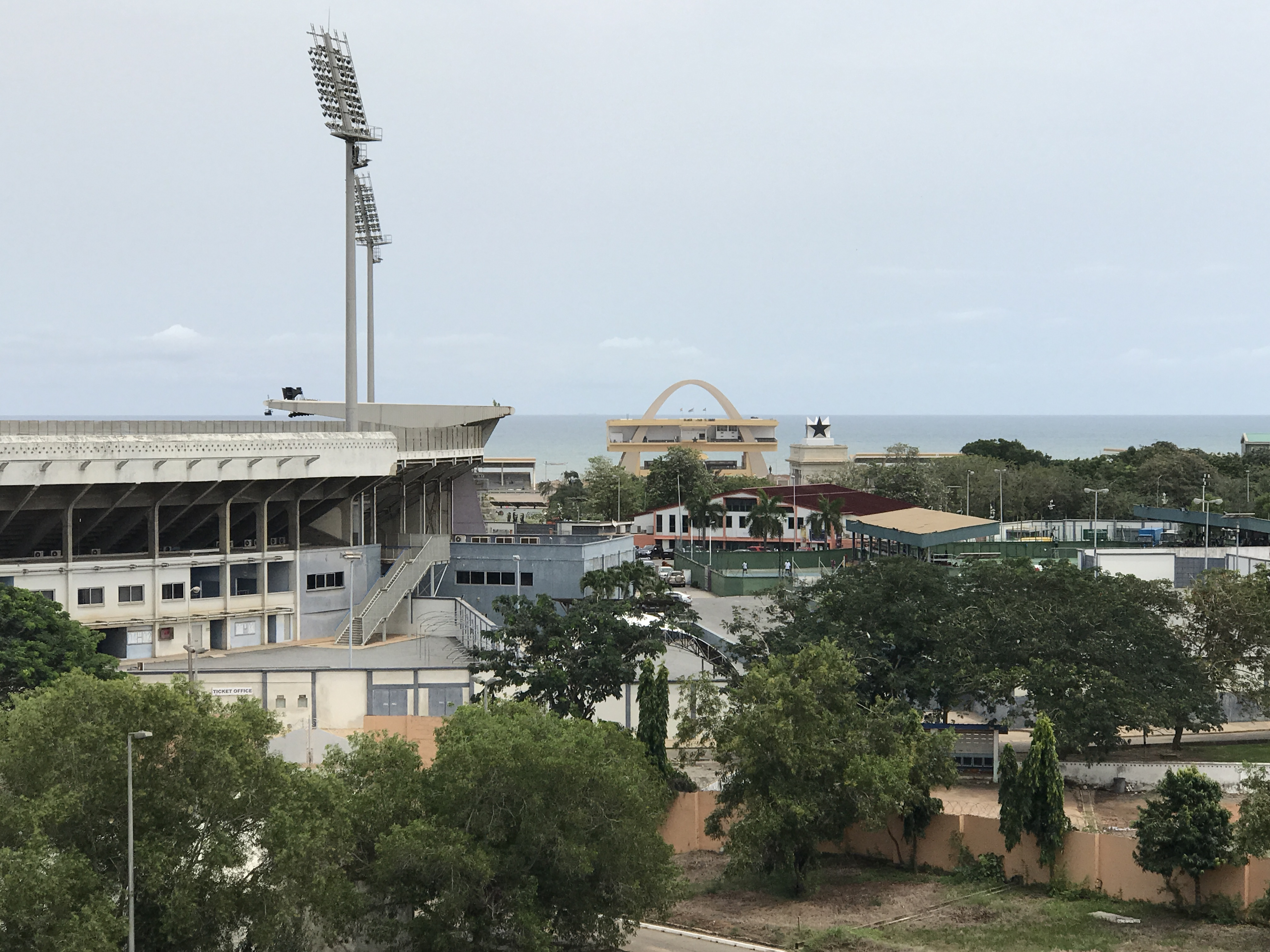 Ghana's Independence Arch